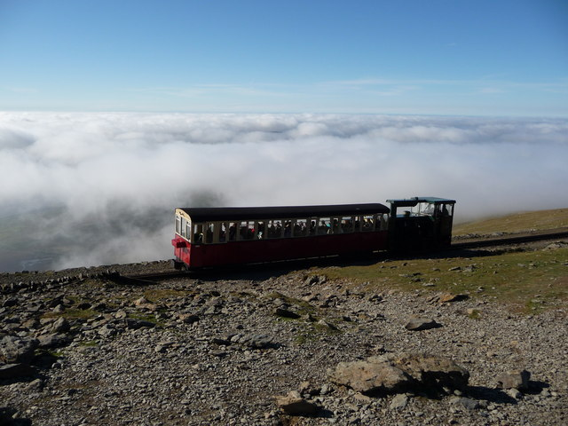 Snowdon Mountain Railway carriage and train approach the summit